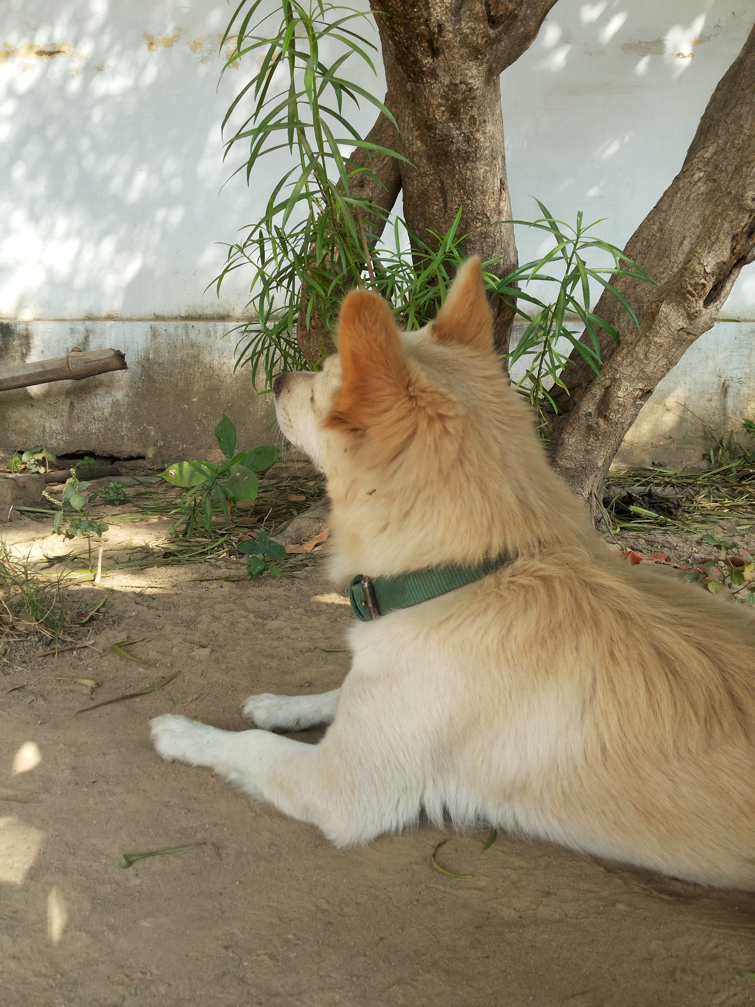 A golden brown Indian spitz in a playful mood